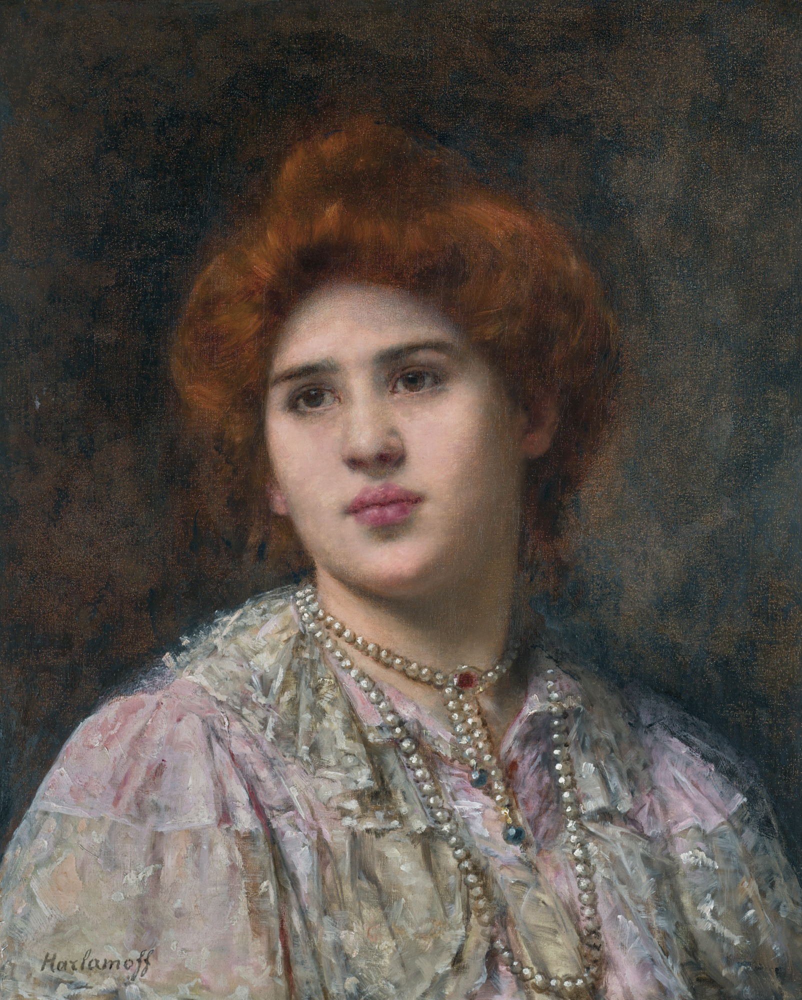 The opera singer Felia Litvinne oil on canvas 55 x 45.5 cm signed b.l.: Harlamoff